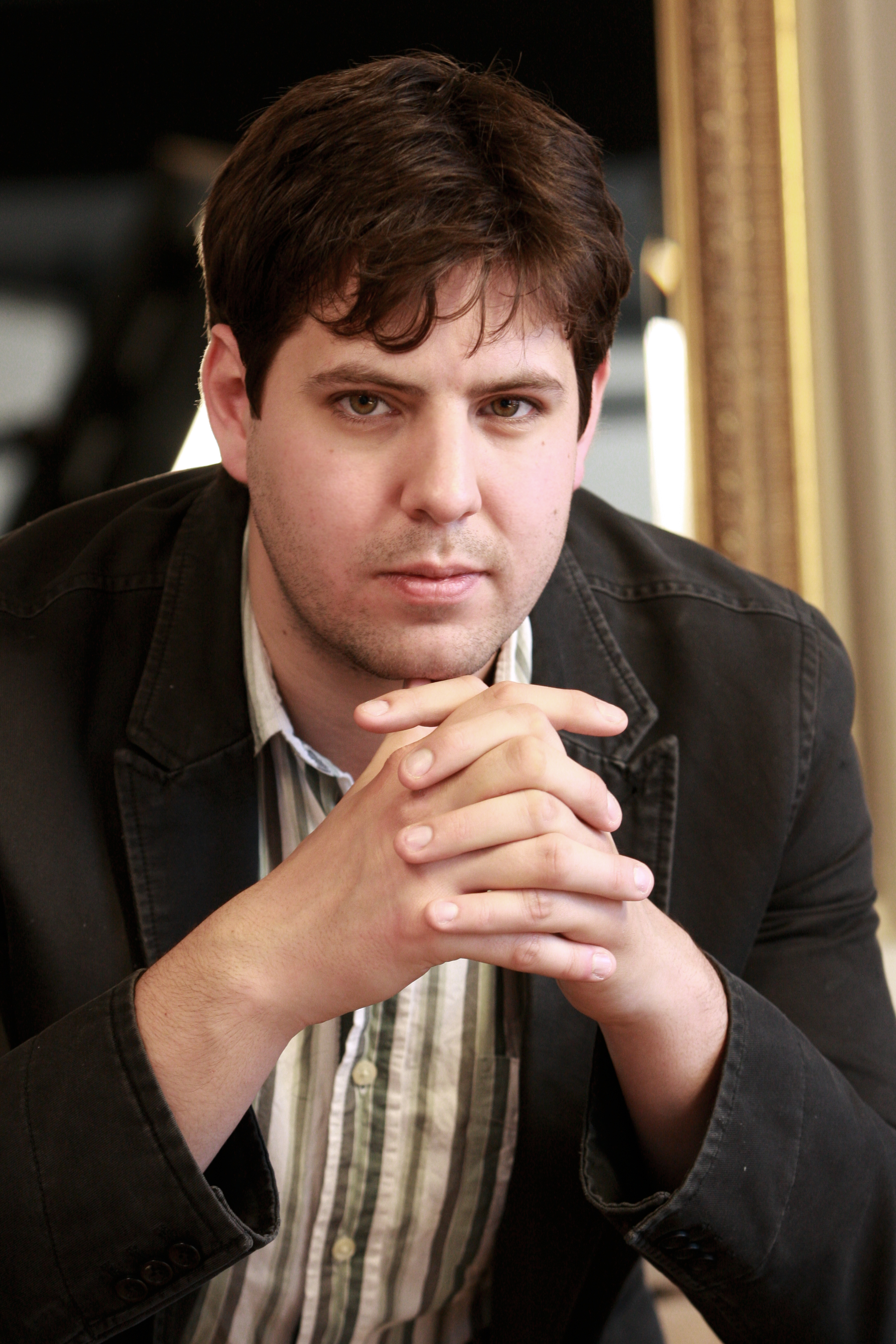 Headshot of author Jay Bahadur.